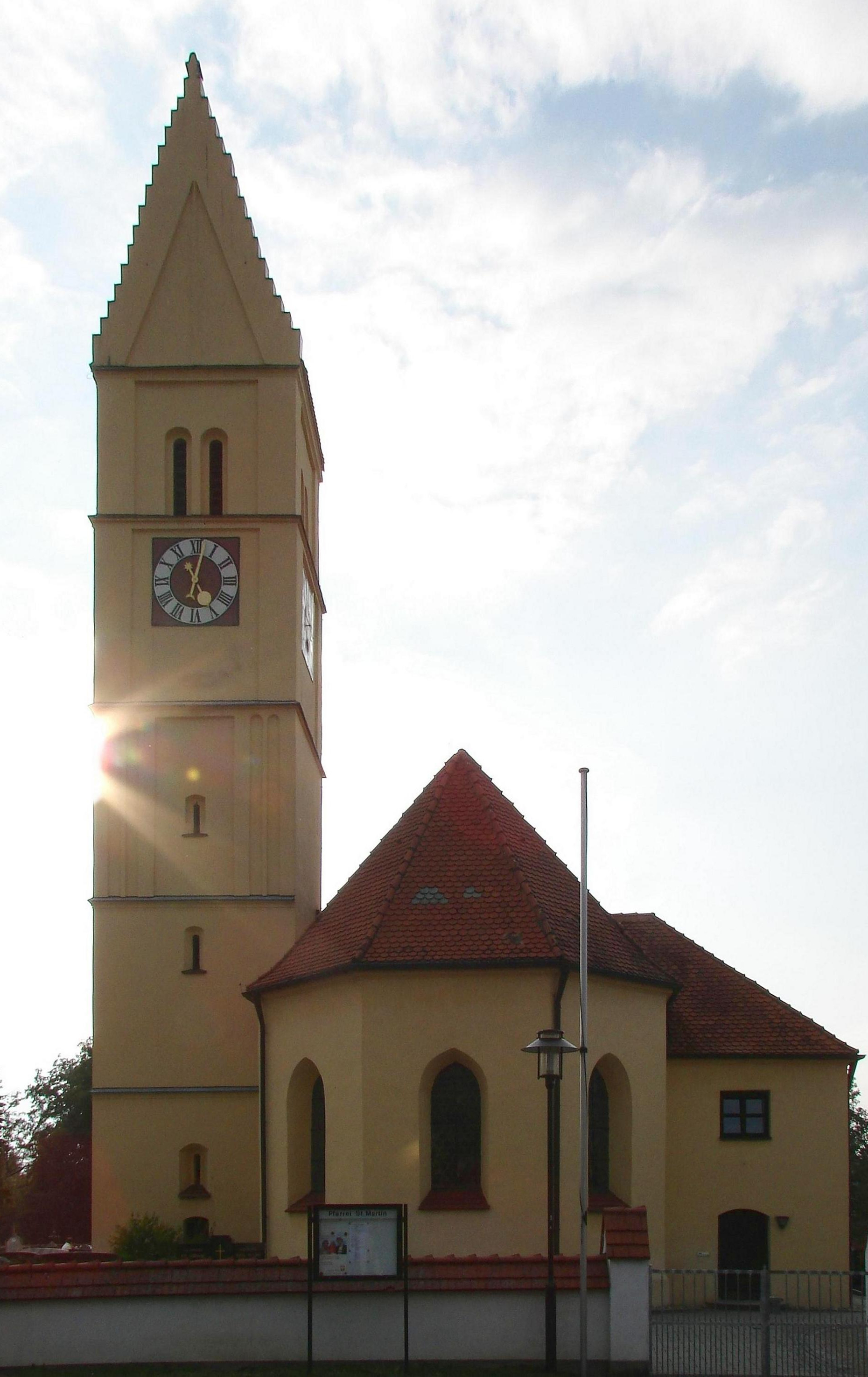 St. Martin's church in Aresing, Bavaria